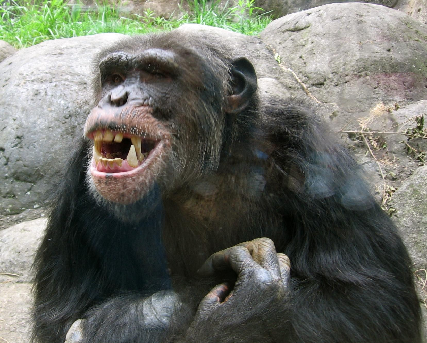 This is a trip that me and my sister took to the Knoxville TN Zoo back in April of 2006. This chap was sitting right down at the glass, watching the people watching him.